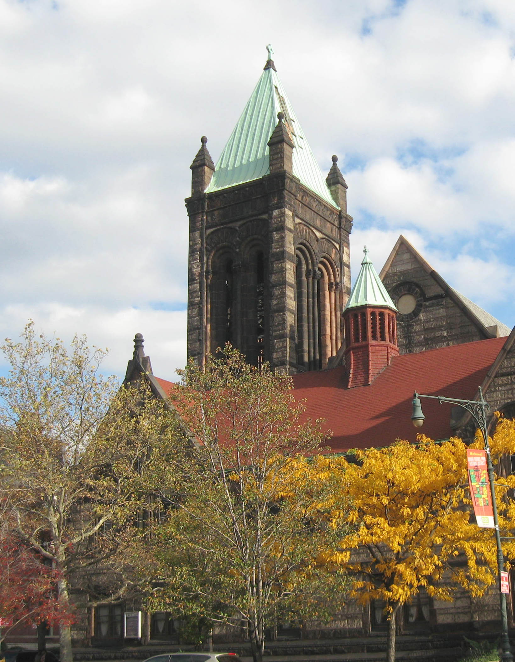 Looking northeast across Malcom X Blvd at Saint Martin's Episcopal Church on a mostly sunny early afternoon.